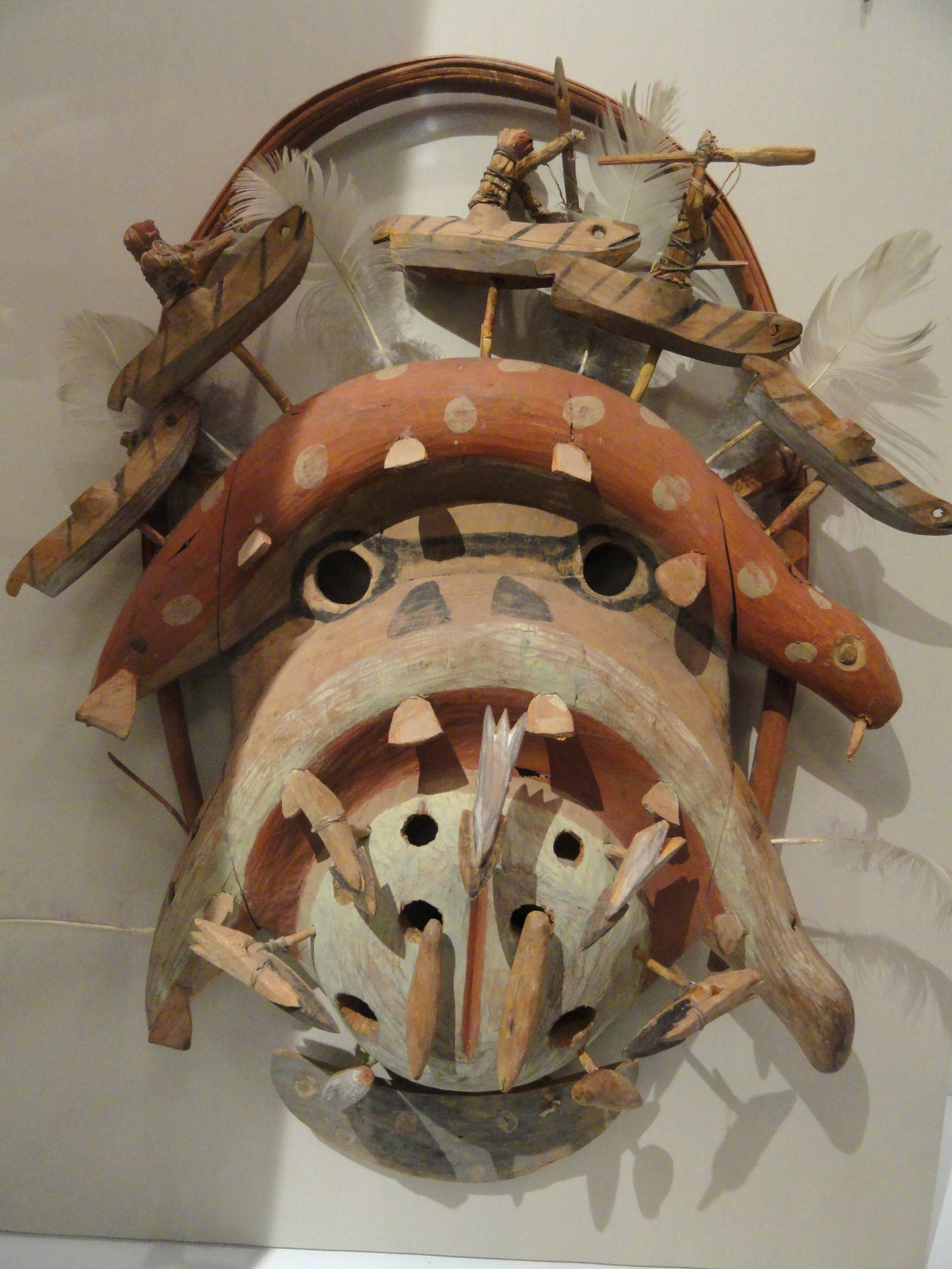 Dance mask, probably of tunghat, Southwest Alaska Eskimo, collected in Kushunak, probably in 1905. Exhibit from the Native American Collection, Peabody Museum, Harvard University, Cambridge, Massachusetts, USA. Photography was permitted without restriction; exhibit is old enough so that it is in the public domain.